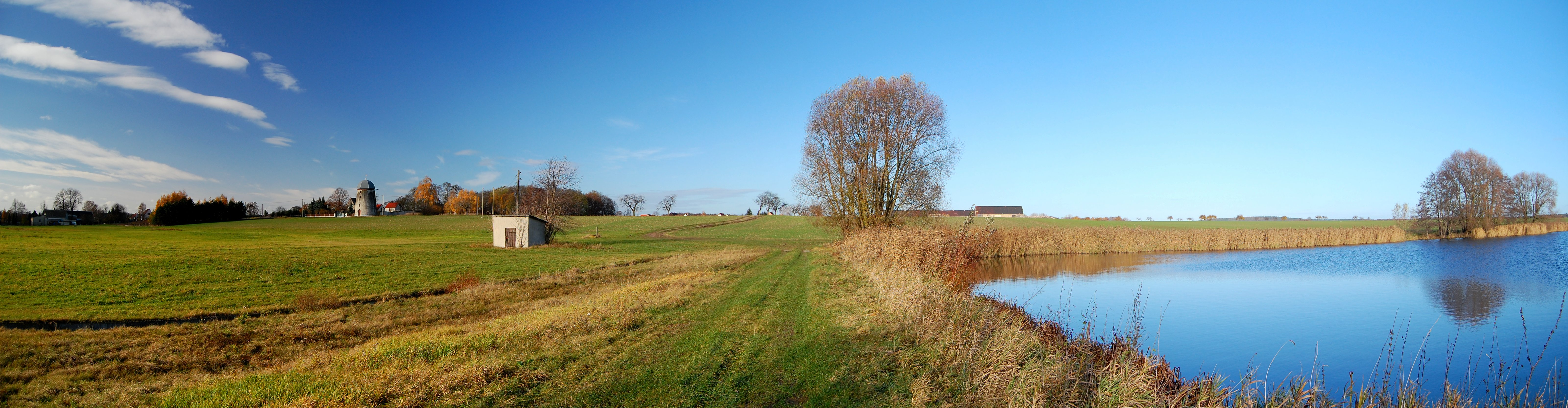 View of Voigtshain, Saxony, Germany